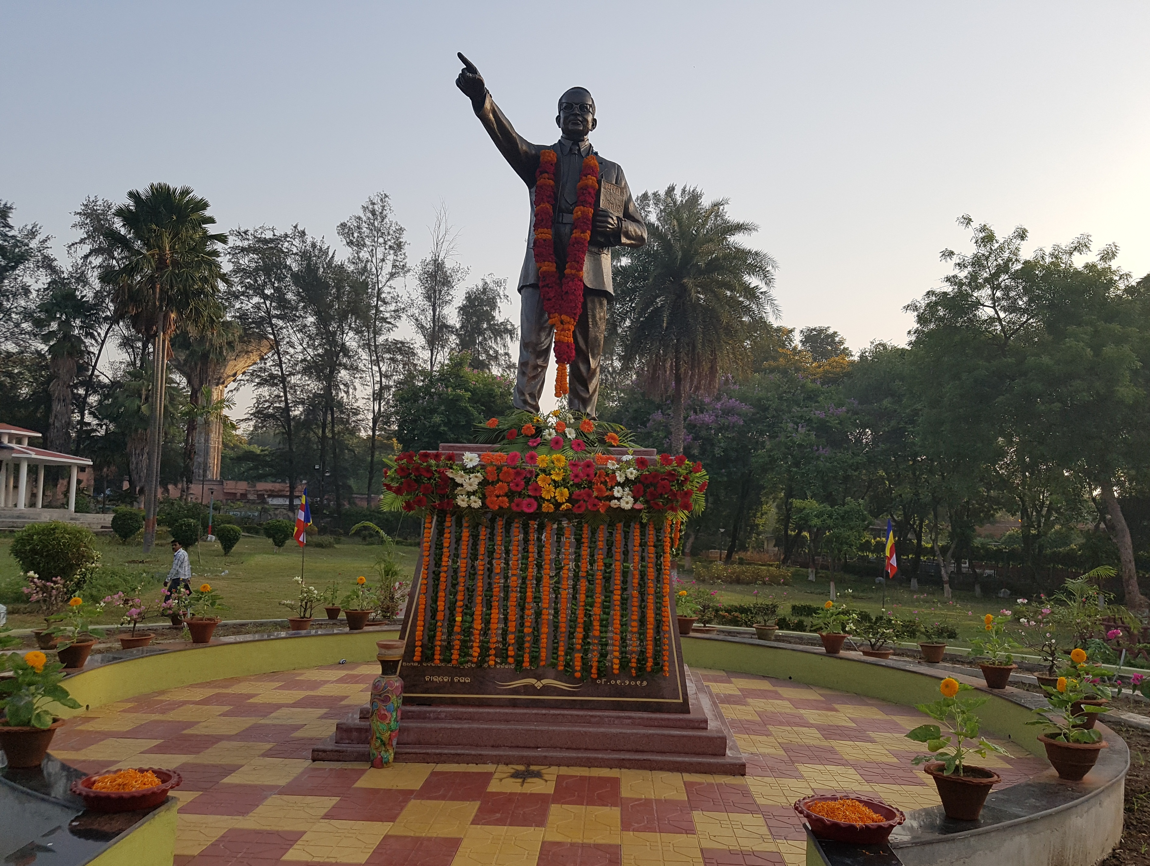 Nalco Jagaranath Temple Angul